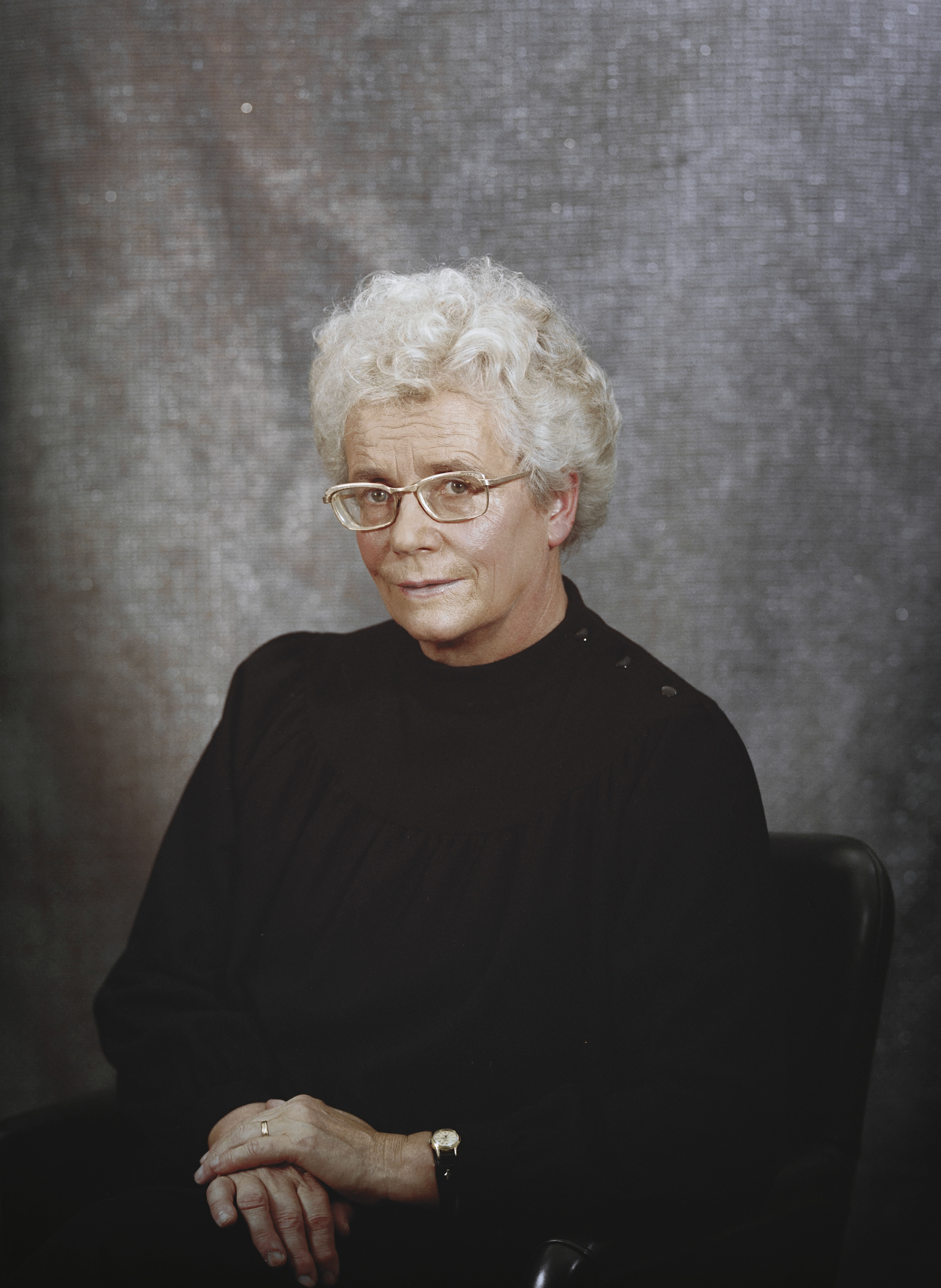 Photograph of the Finnish psychologist and educationist Annika Takala (1921–1996).